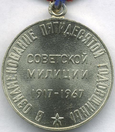 Reverse of the Jubilee Medal "50 Years of the Armed Forces of the USSR".